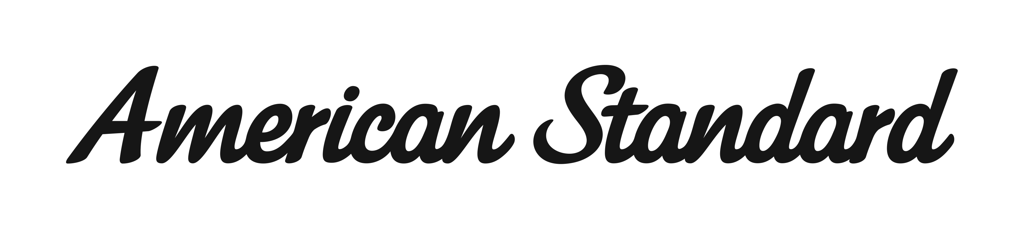 The logo of American Standard as used in Asia Pacific